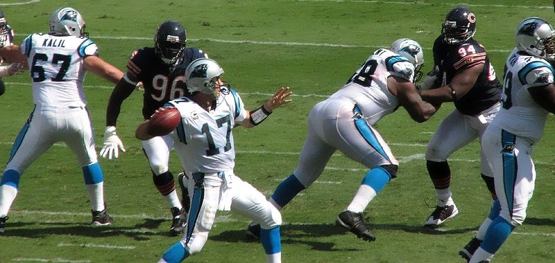 Jake Delhomme, quarterback of the Carolina Panthers, throwing against the Chicago Bears.